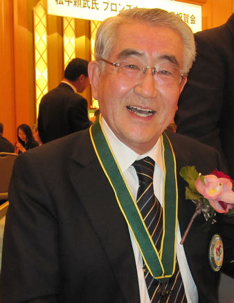 Yoritake Matsudaira at his Bronze Wolf ceremony